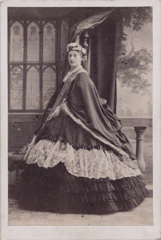 by Camille Silvy, albumen carte-de-visite, 1860